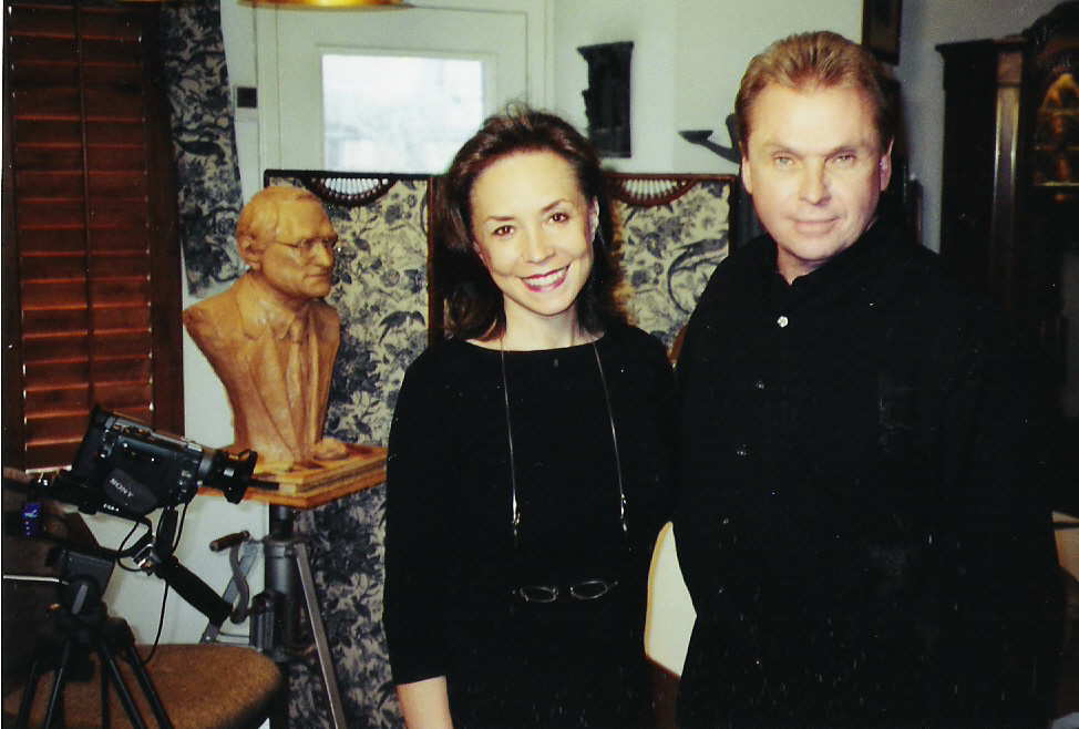 Karen T. Taylor and Ed Miller